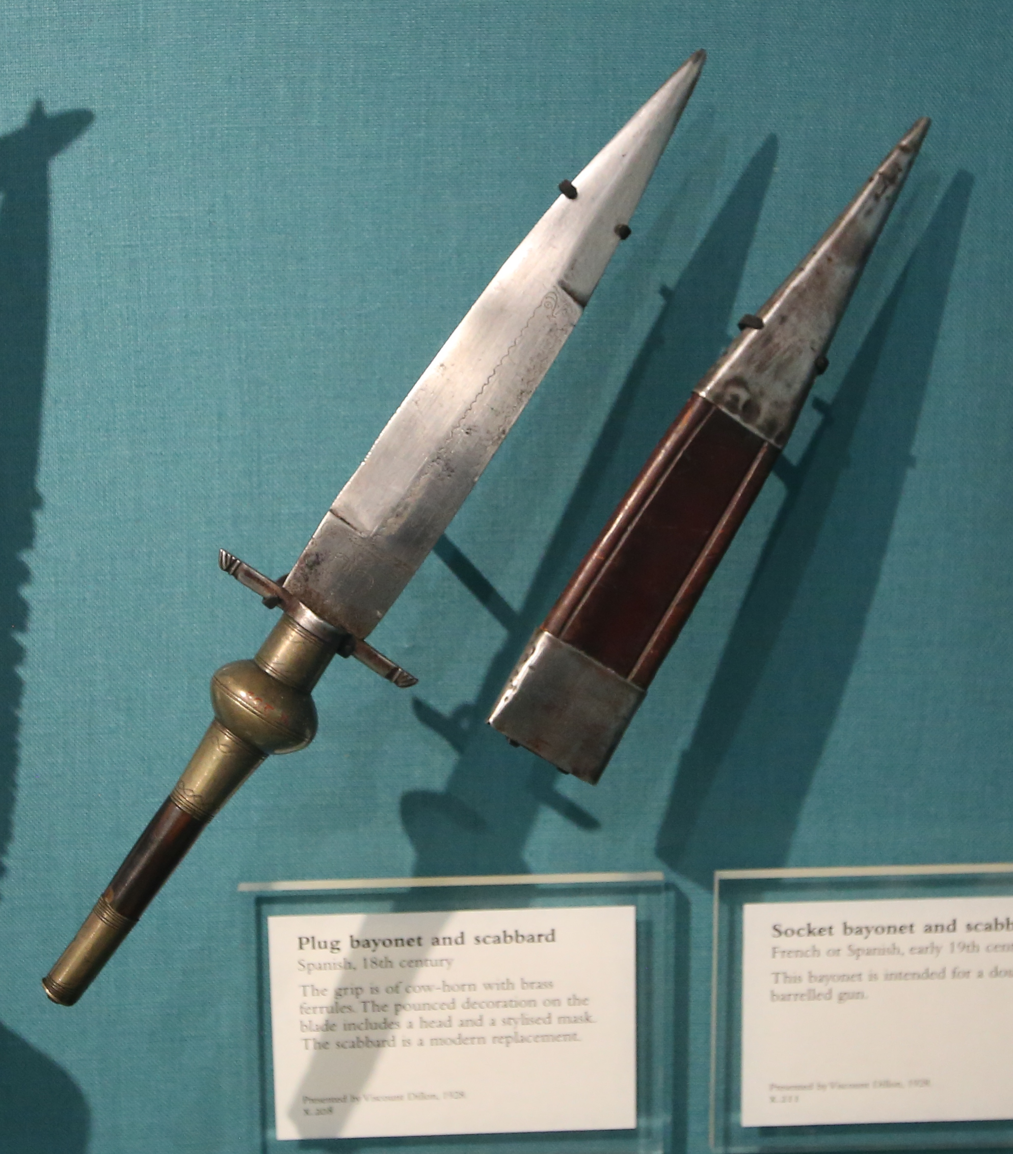 Photo of a spanish plug bayonet from the 18th century along with its scabbard.